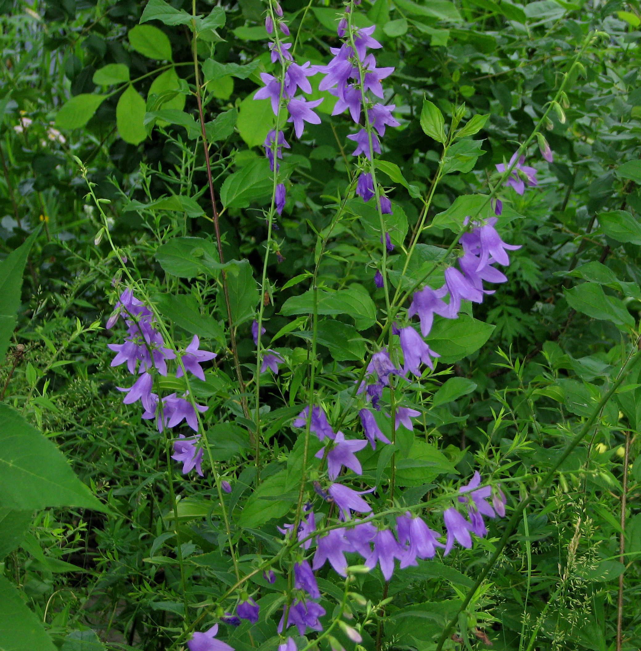 Creeping Bellflower (Campanula rapunculoides), Ottawa, Ontario, Canada